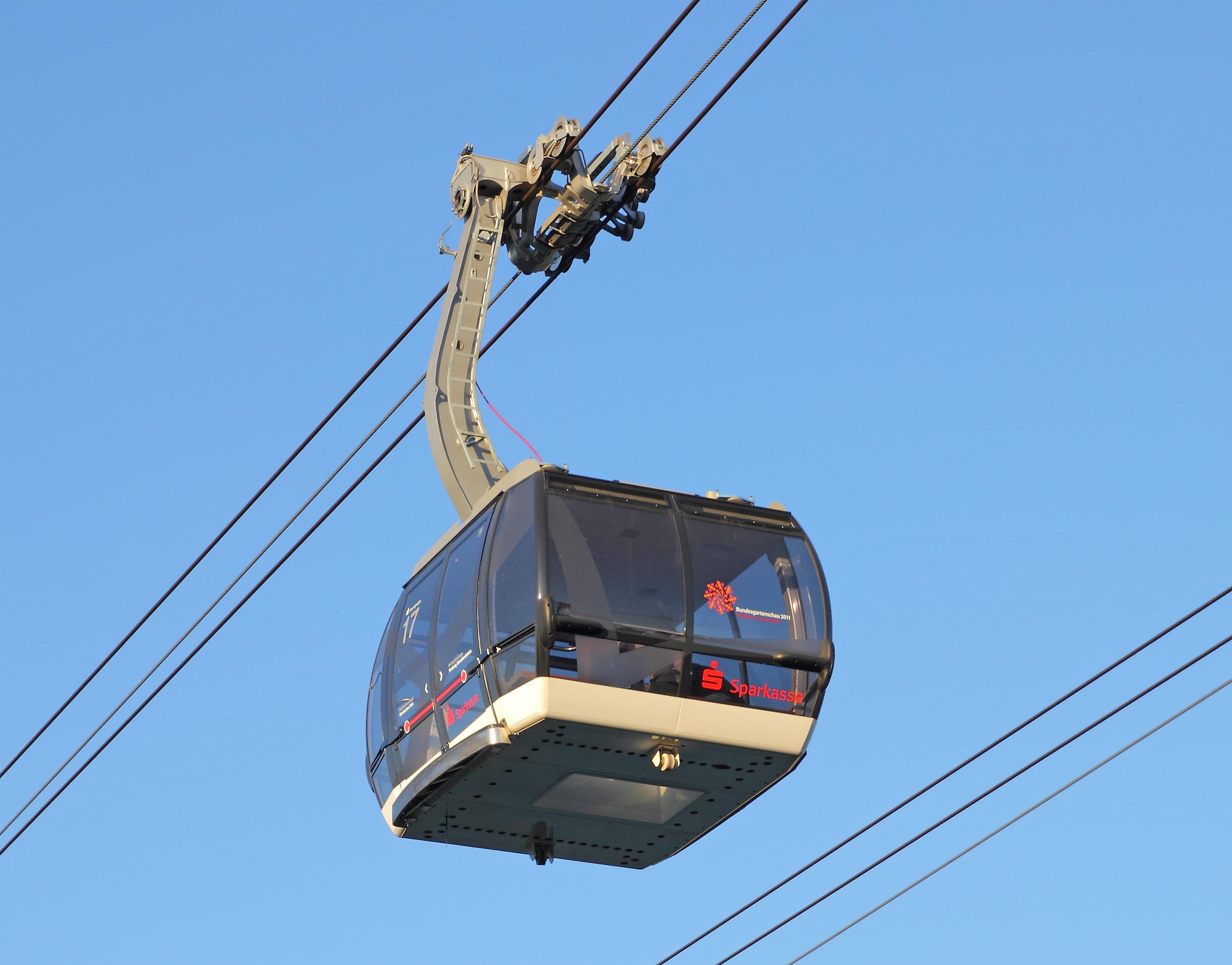 Cableway Koblenz. A car departing from the station in Koblenz-Altstadt.